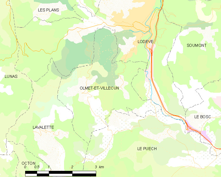 Map commune FR insee code 34188.png - Olmet-et-Villecun